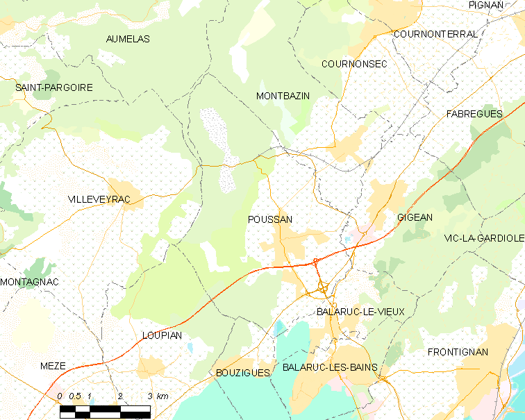 Map commune FR insee code 34213.png - Poussan